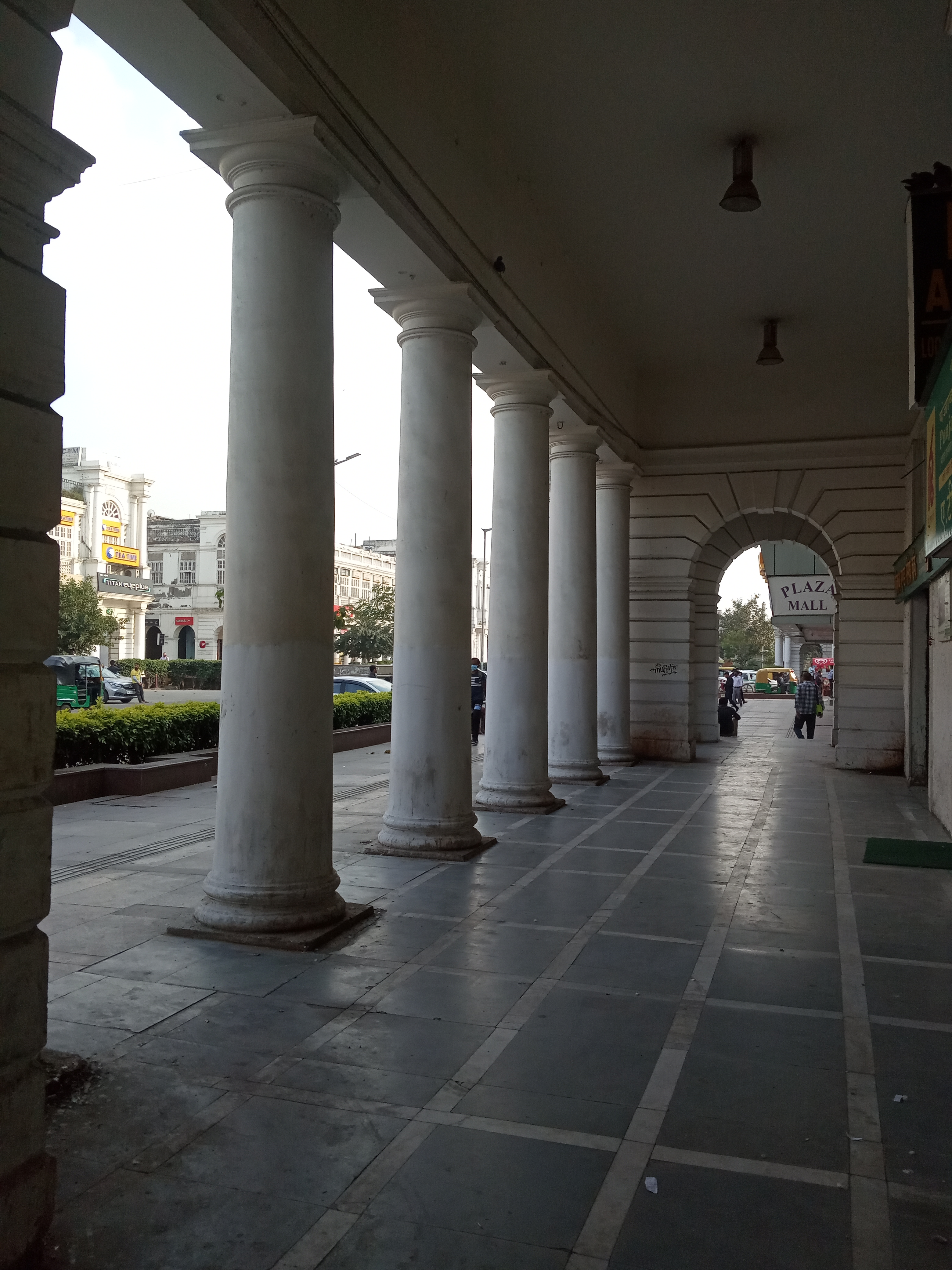 Effect of ban on social gathering over 5 people on H block Connaught place on 21 March 2020